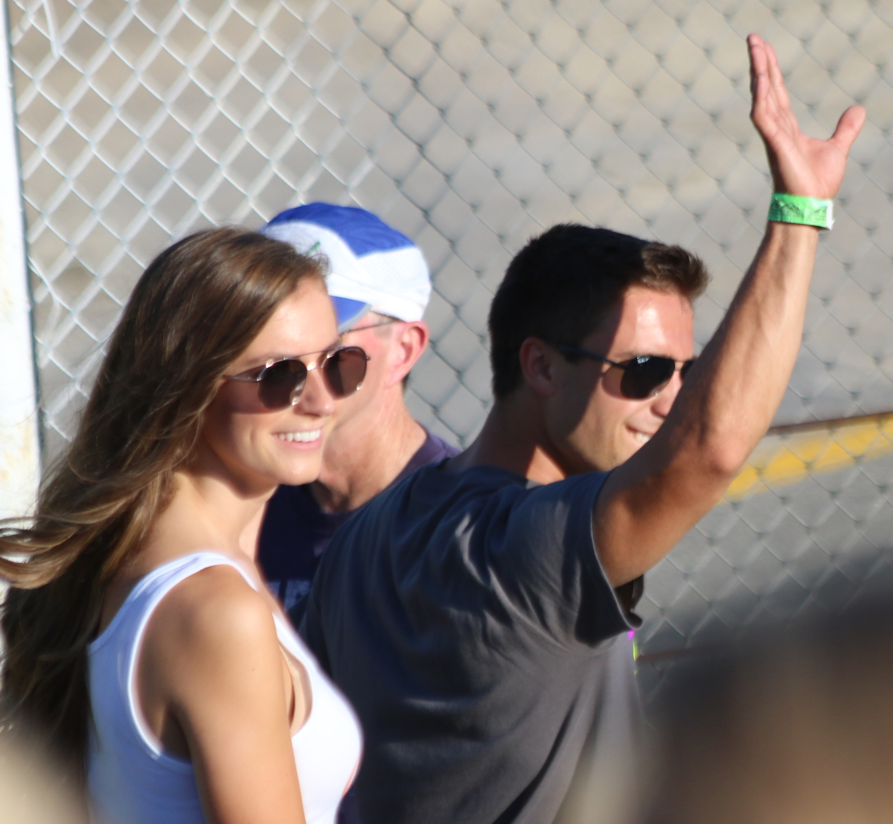 NASCAR driver Ty Majeski waves to fans accompanied by his girlfriend Ali VanderLoop at the 2017 Slinger Nationals. The couple were engaged in early August 2018.